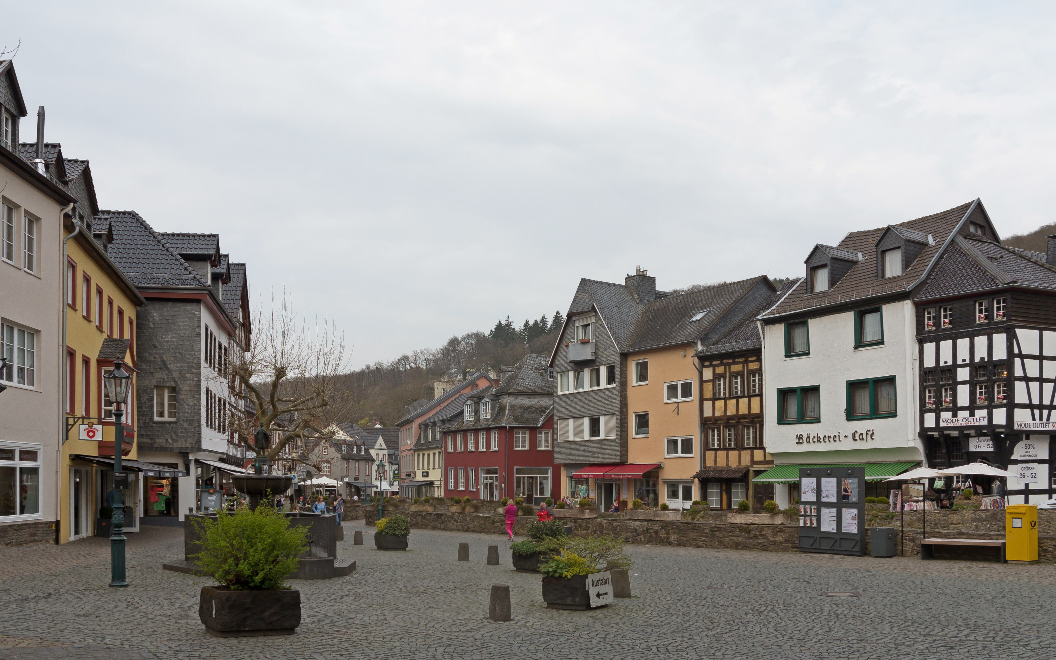 Bad Münstereifel, view to a street: der MarktThis is a photograph of an architectural monument., no. 105